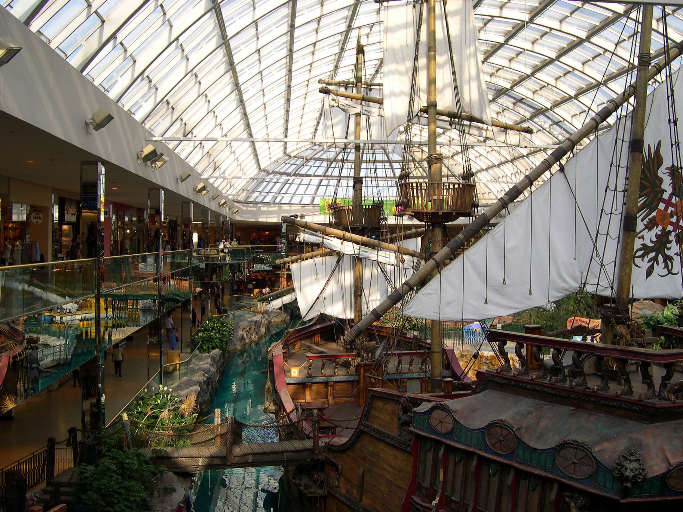 the "Santa Maria"